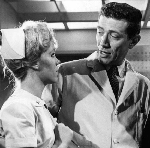 Photo of Zina Bethune, Joseph Campanella and Diana Hyland in a scene from the prime time television drama The Doctors and the Nurses.